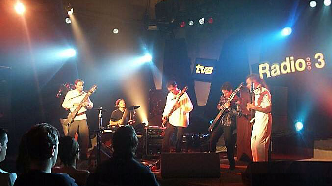 Guillermo Cides